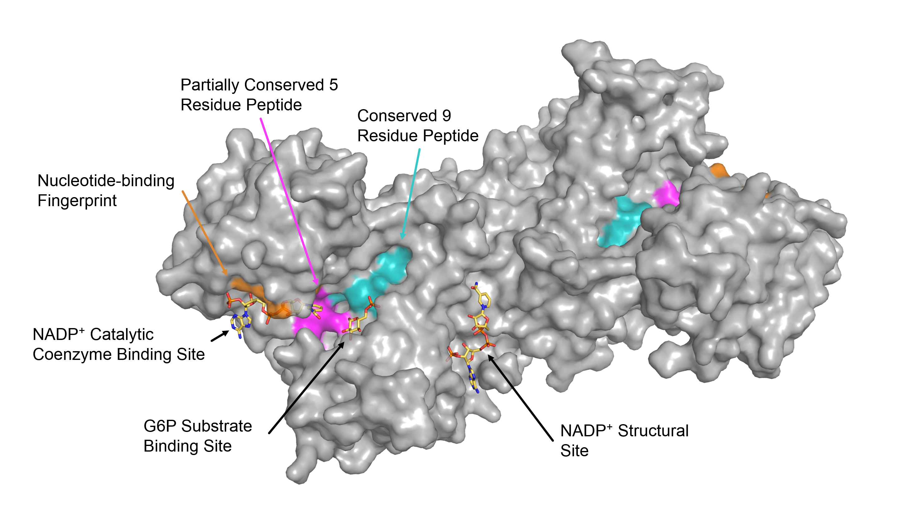 Shows the labeled sites of G6PD